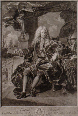 Portrait of French financier Samuel Bernard (1651-1739) by Pierre Imbert Drevet after Hyacinthe Rigaud (1659-1743).